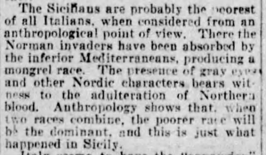 Excerpt from a letter to the editor of the Evening Sun, signed "Anthropologist." June 2, 1919.